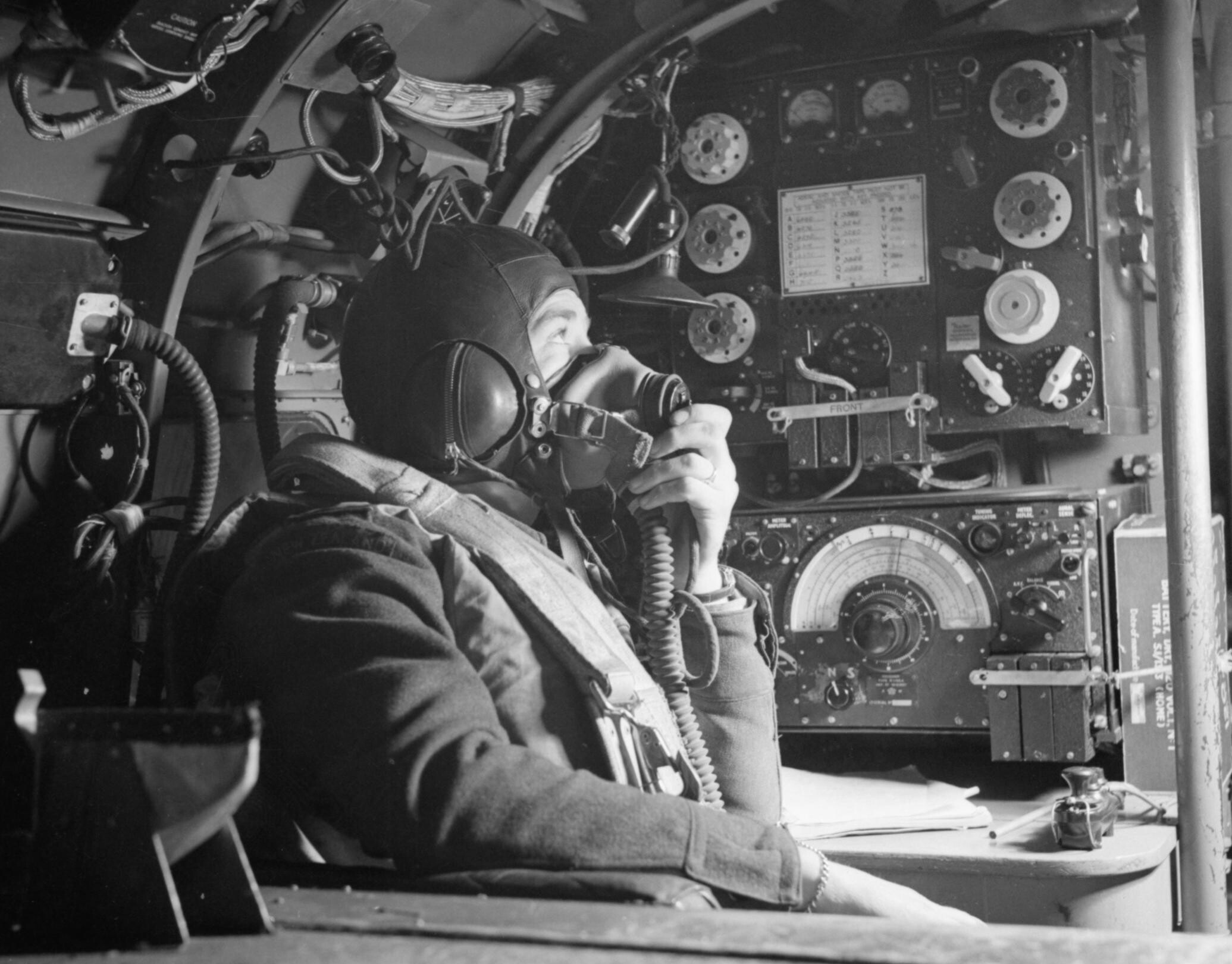 Royal Air Force Bomber Command, 1942-1945. Flying Officer R W Stewart, a wireless operator on board an Avro Lancaster B Mark I of No. 57 Squadron RAF based at Scampton, Lincolnshire, speaking to the pilot from his position in front of the Marconi TR 1154/55 transmitter/receiver set.